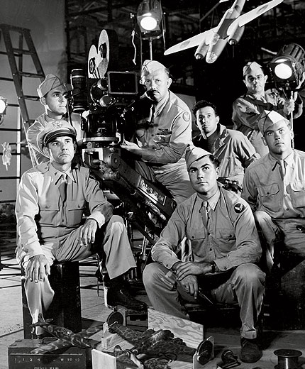 An FMPU camera crew, 1944. Photo: National Archives and Records Administration (NARA).